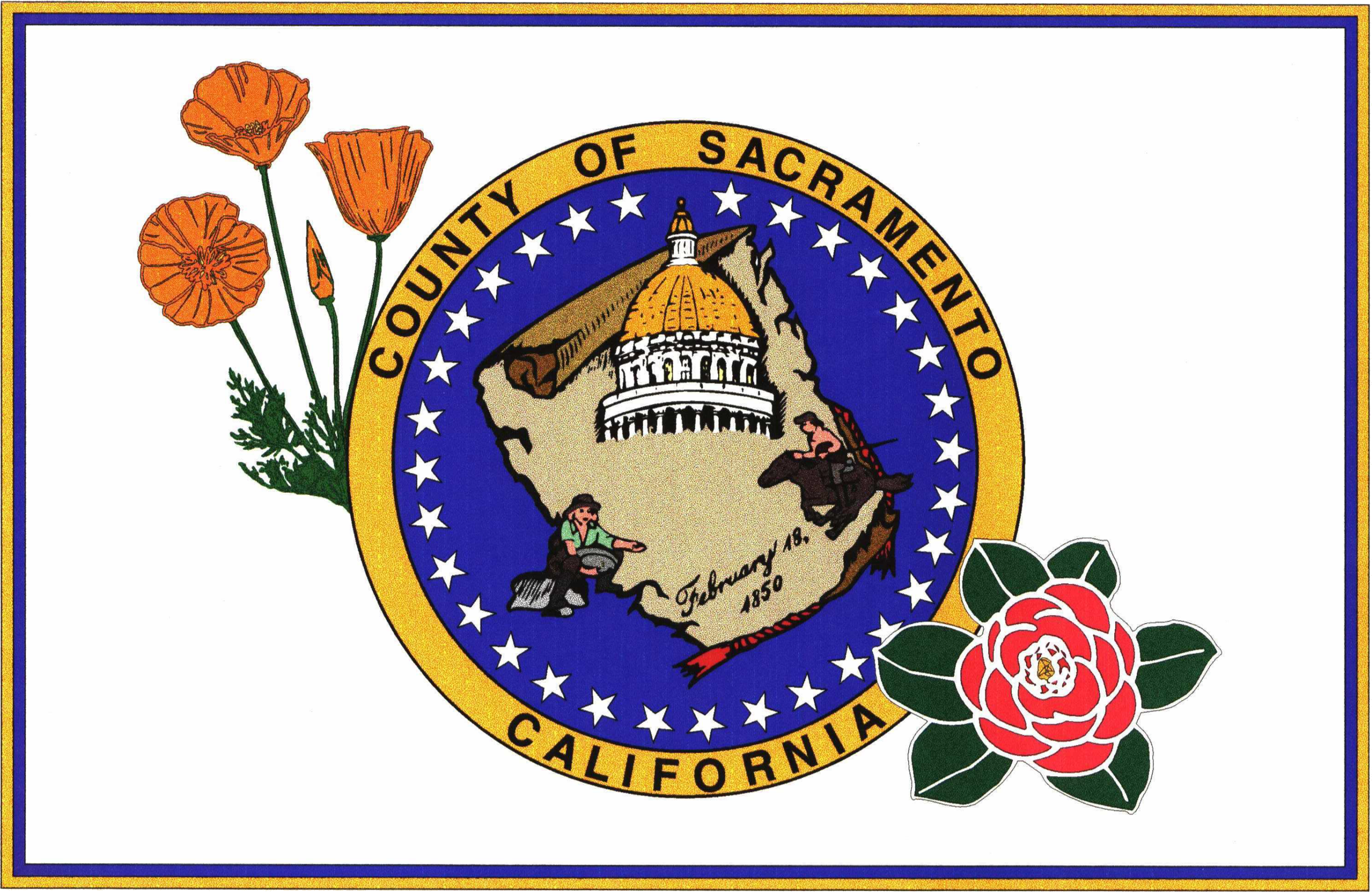 Flag of Sacramento County, California